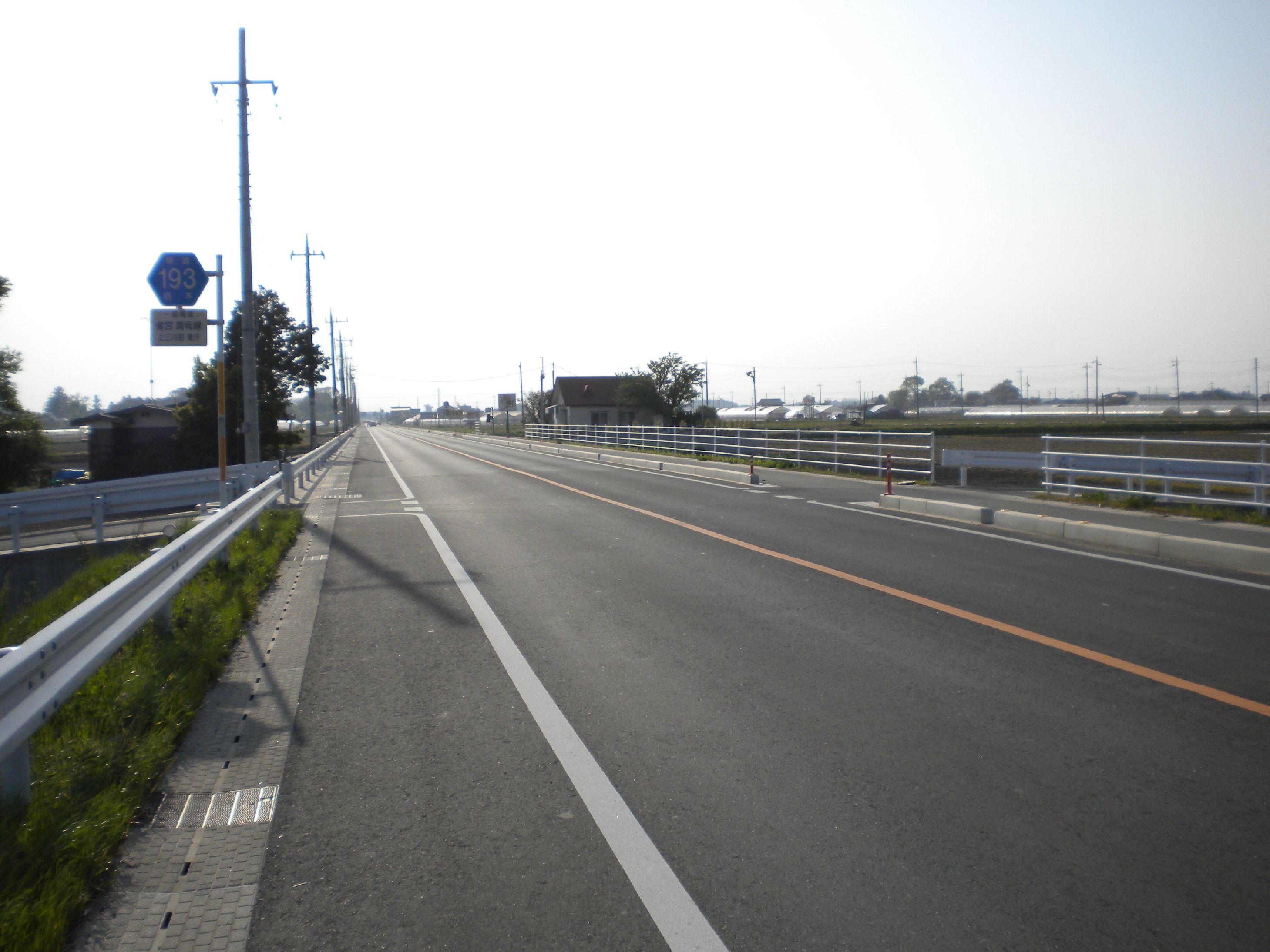 The Tochigi Prefectural Road Route 193 in Higashifuzakashi, Kaminokawa Town